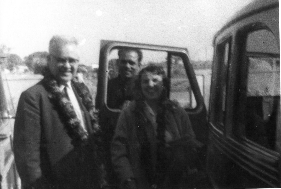 Harry Huskey convened a meeting at IIT Kanpur to give guidance to future Computer Science education. An outing for the dozen or so experts to the temples in Khajarao, Madhya Pradesh, was organized as part of the meeting.